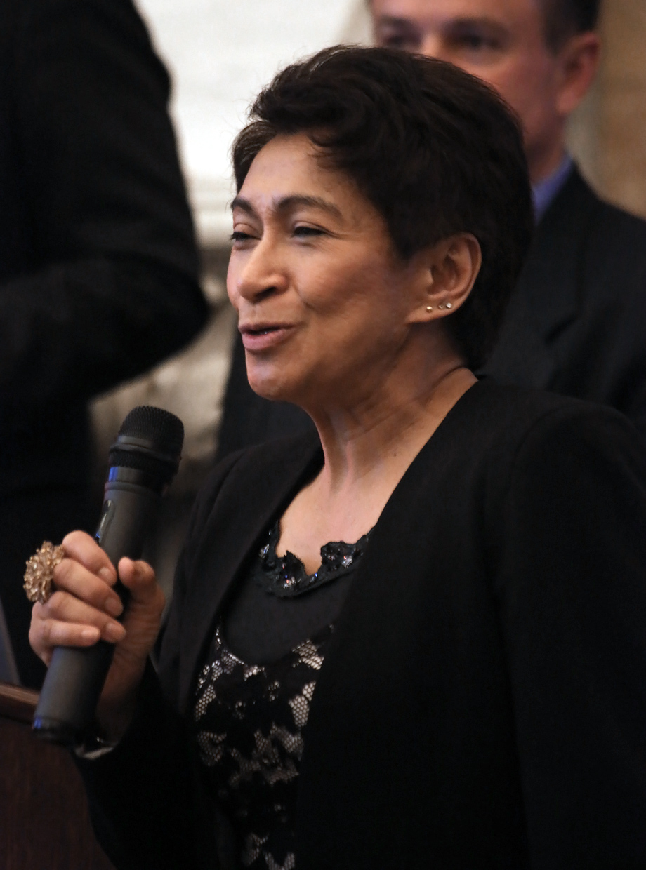 Mazlan Othman - Women in Space: The Next 50 Years (Celebrating 50 Years of Women in Space) - public panel and discussion on invitation of UNOOSA with Roberta Bondar, Janet L. Kavandi, Dumitru-Dorin Prunariu, Chiaki Mukai and Liu Yang (Naturhistorisches Museum in Vienna, Austria).